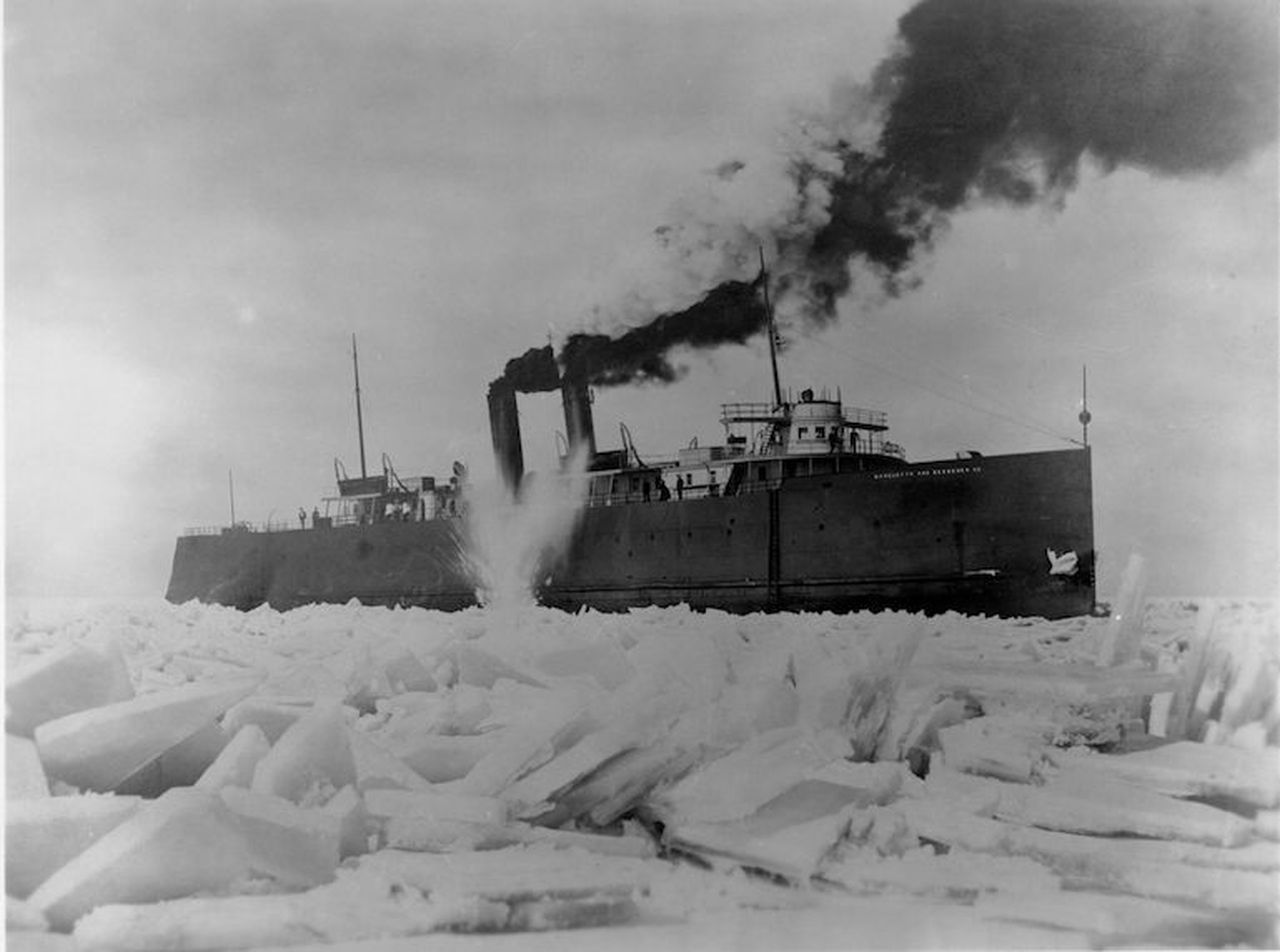 The train ferry Marquette & Bessemer No.2 underway